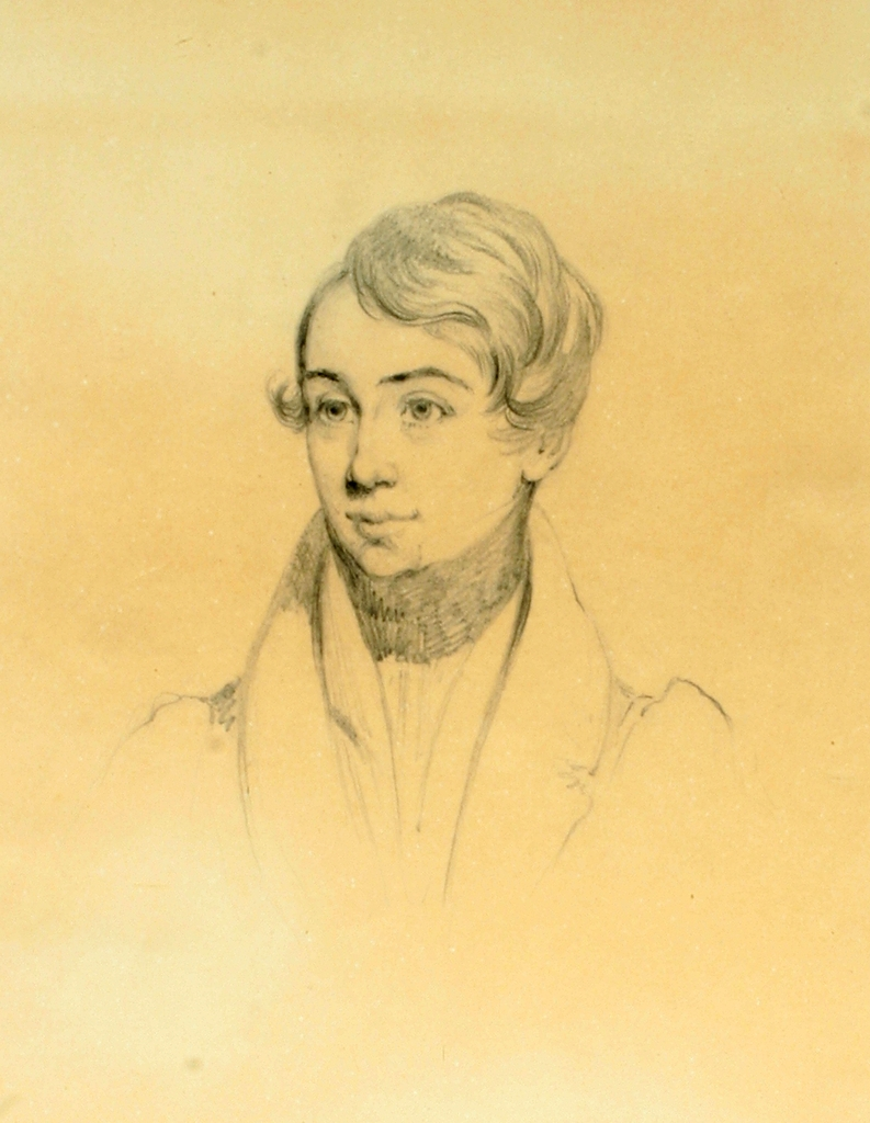 Drawing, artist unknown